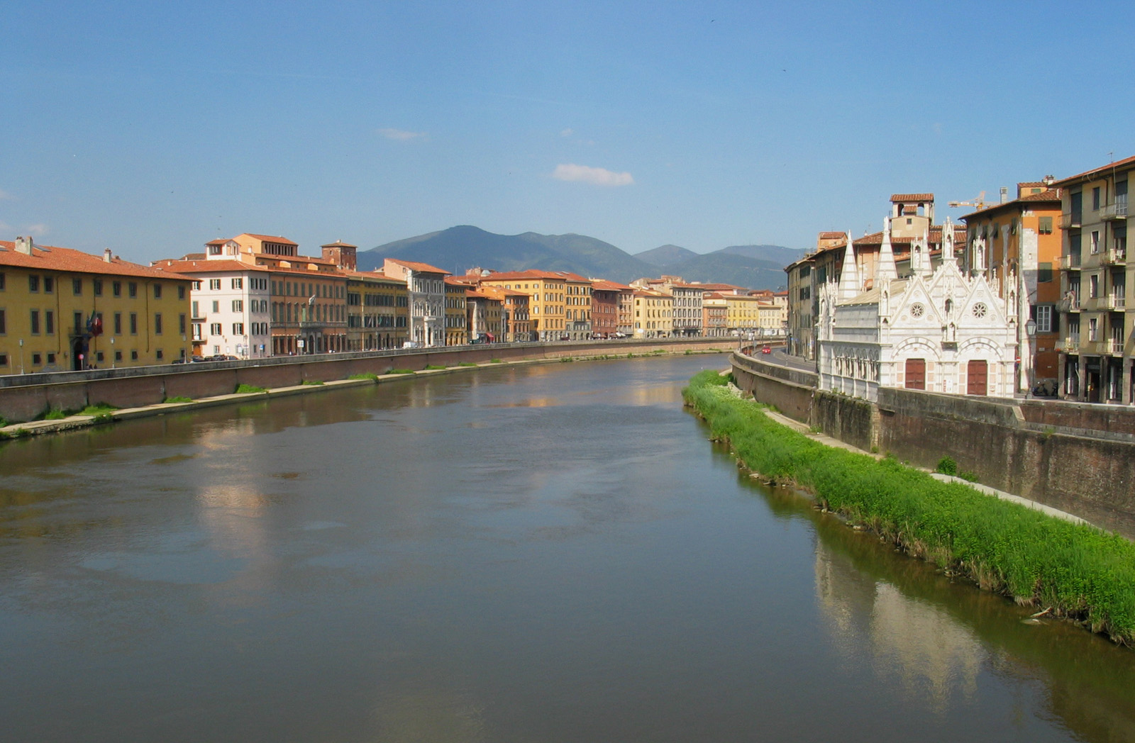 View along the Arno River in the town of Pisa/Italy, on the right bank you can see the chapel of Santa Maria della Spina.